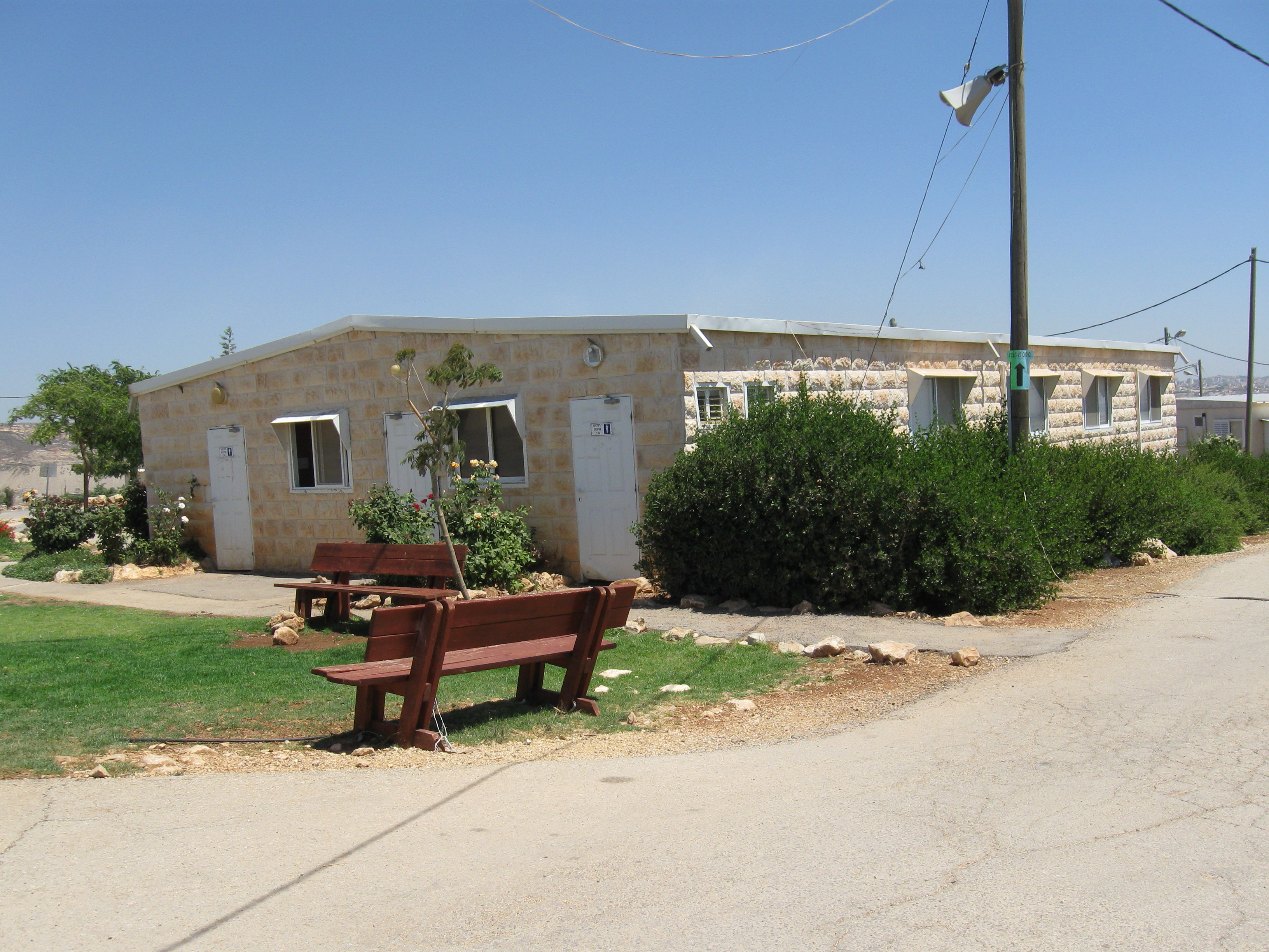 Synagogue at Migron.jpg